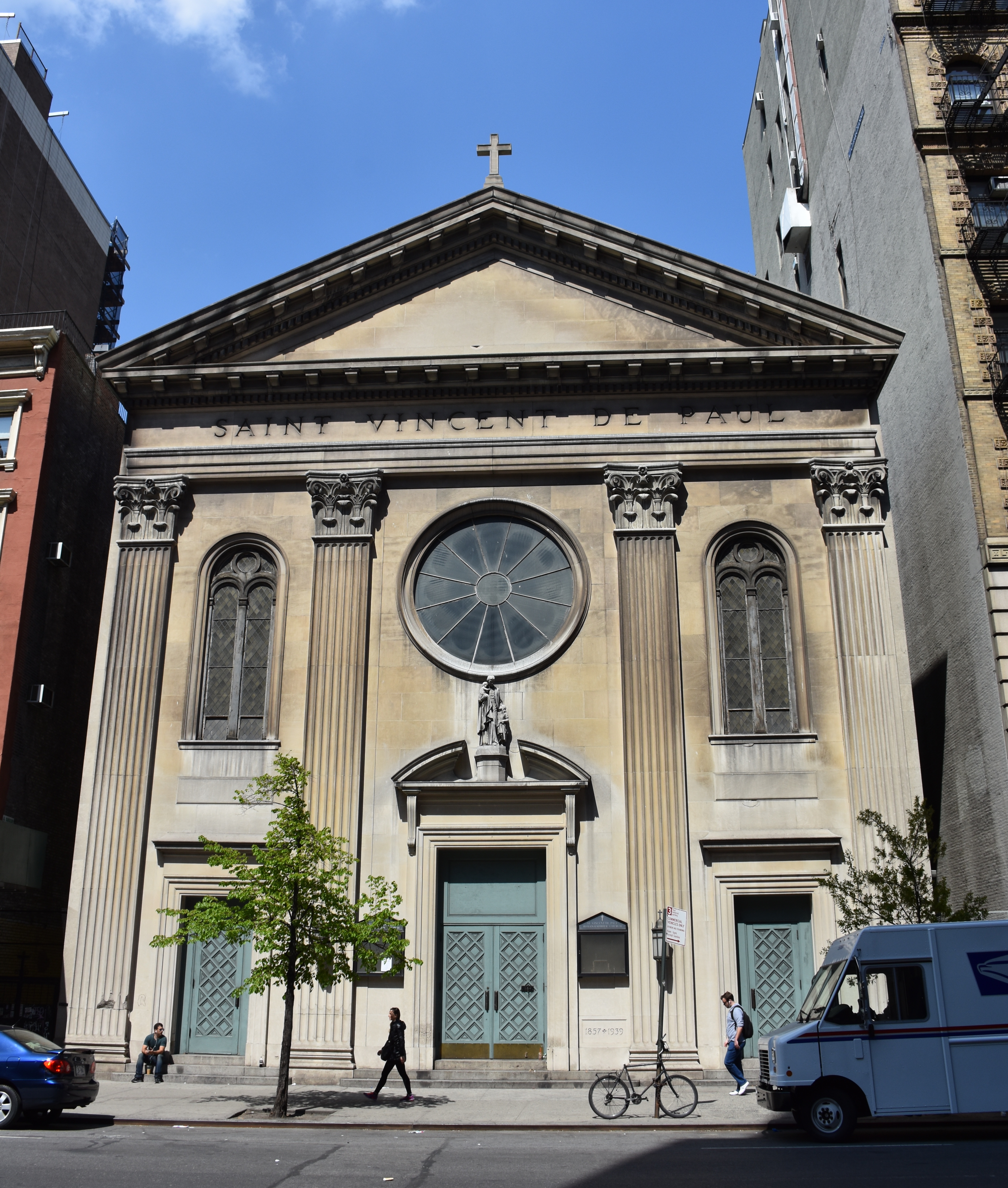 St. Vincent de Paul Roman Catholic in New York City